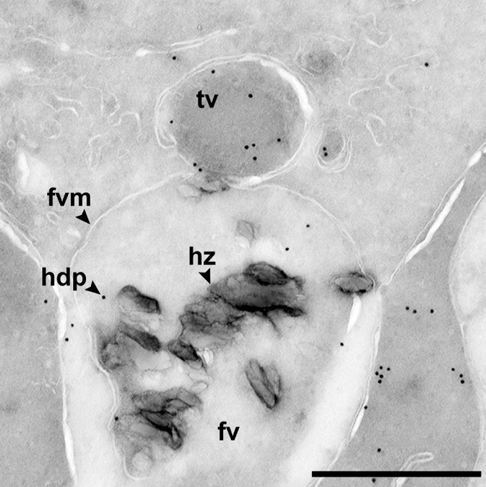 Electron micrograph of the delivery of a heme detoxification protein to the malaria parasite food vacuole. fv, food vacuole; fvm, fv membrane; hz, hemozoin; hdp, heme detoxification protein; tv, transport vesicle. Bar, 0.5 µm. The protein is labeled with a specific antibody bound to gold particles (immuno-electron microscopy).